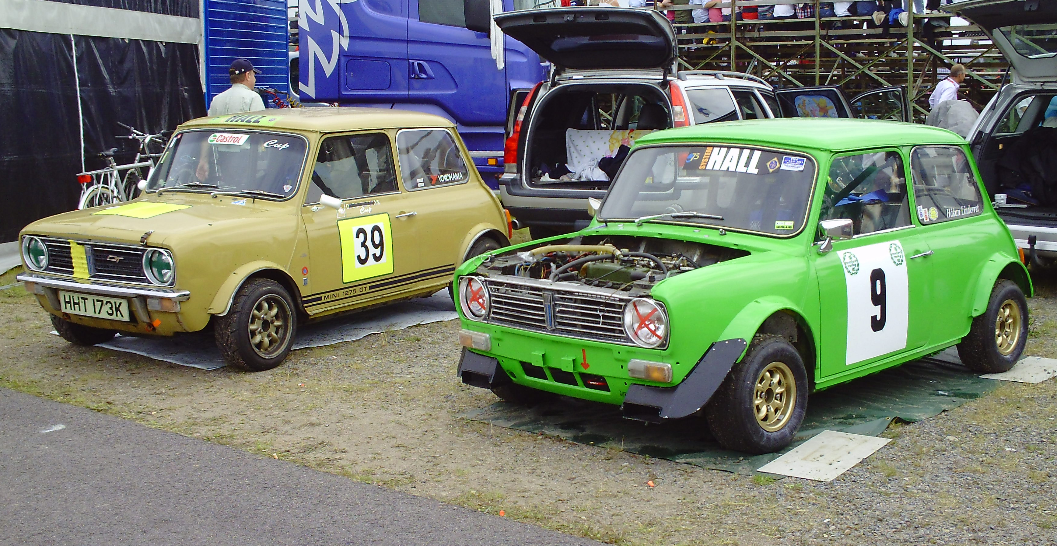 To celebrate Svenska Bilsportförbundet's 75 anniversary, a historic race was held at Falkenbergs Motorbana. Here is the two BMC Mini Clubman 1275 GT:s of Håkan Lindevret (no. 9) and Lars Fritz (no. 39). However, Lindevret did not start the races.